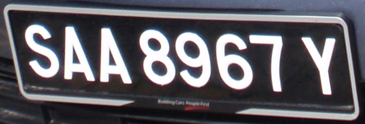 Sabah licence plate from Perodua Myvi.